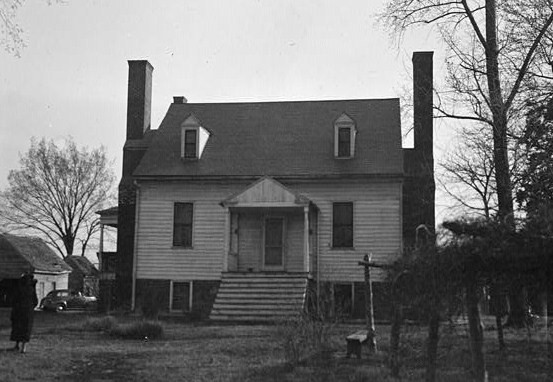 Green Hill Place (Green Hill House) — State Routes 1760 & 1761, Louisburg vicinity, Franklin County, North Carolina. 1760s house on the National Register of Historic Places. Photograph from the HABS—Historic American Buildings Survey images of North Carolina (cropped).